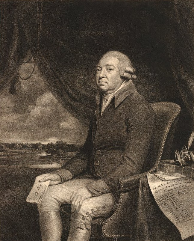 Portrait of John Robinson (1727–1802), English lawyer.